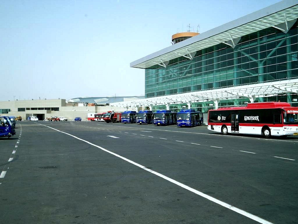 Delhi's new domestic terminal 1D